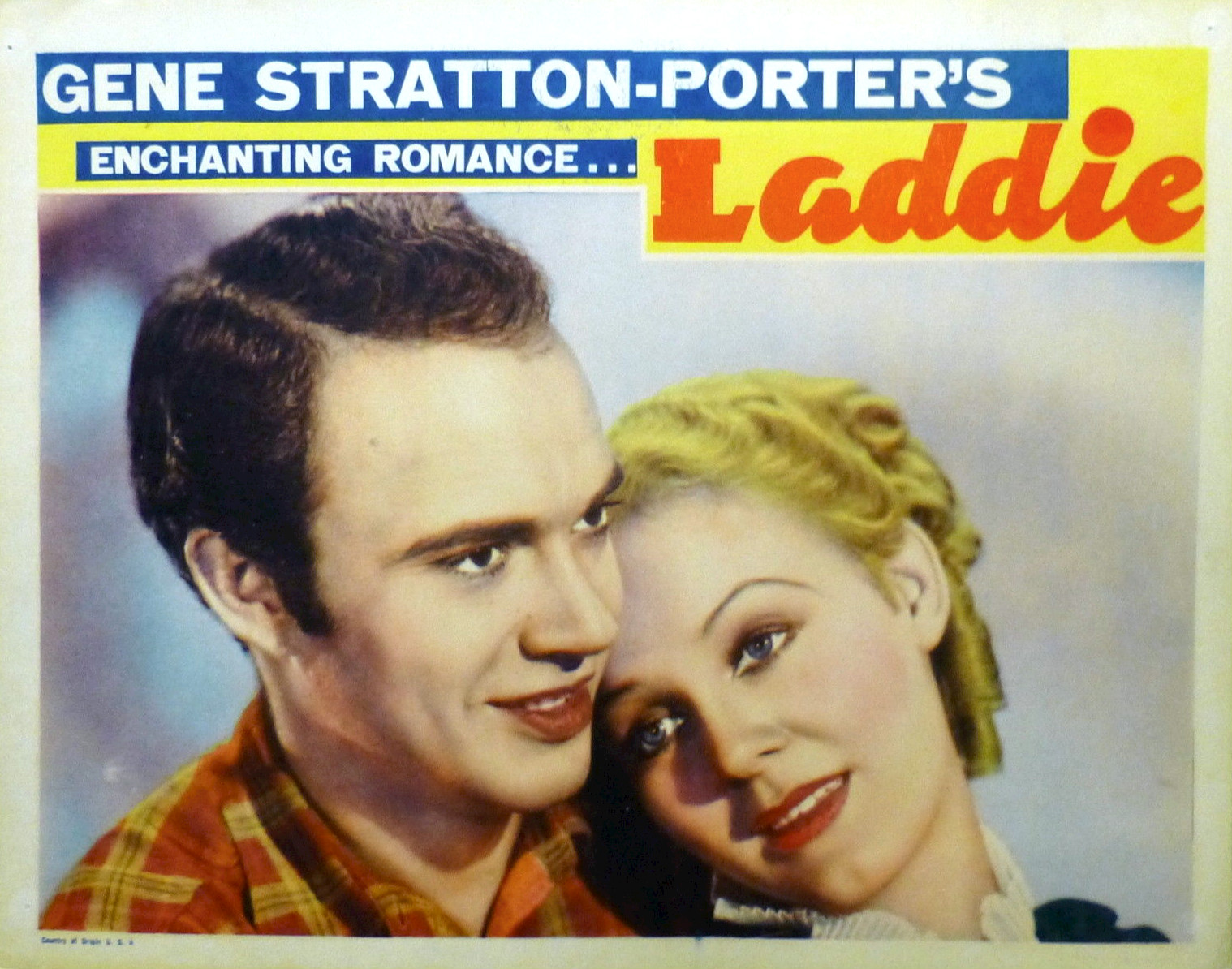 Lobby card for the 1935 film Laddie. The item has no copyright markings on it as can be seen in the links above. At bottom right is Country of origin USA.